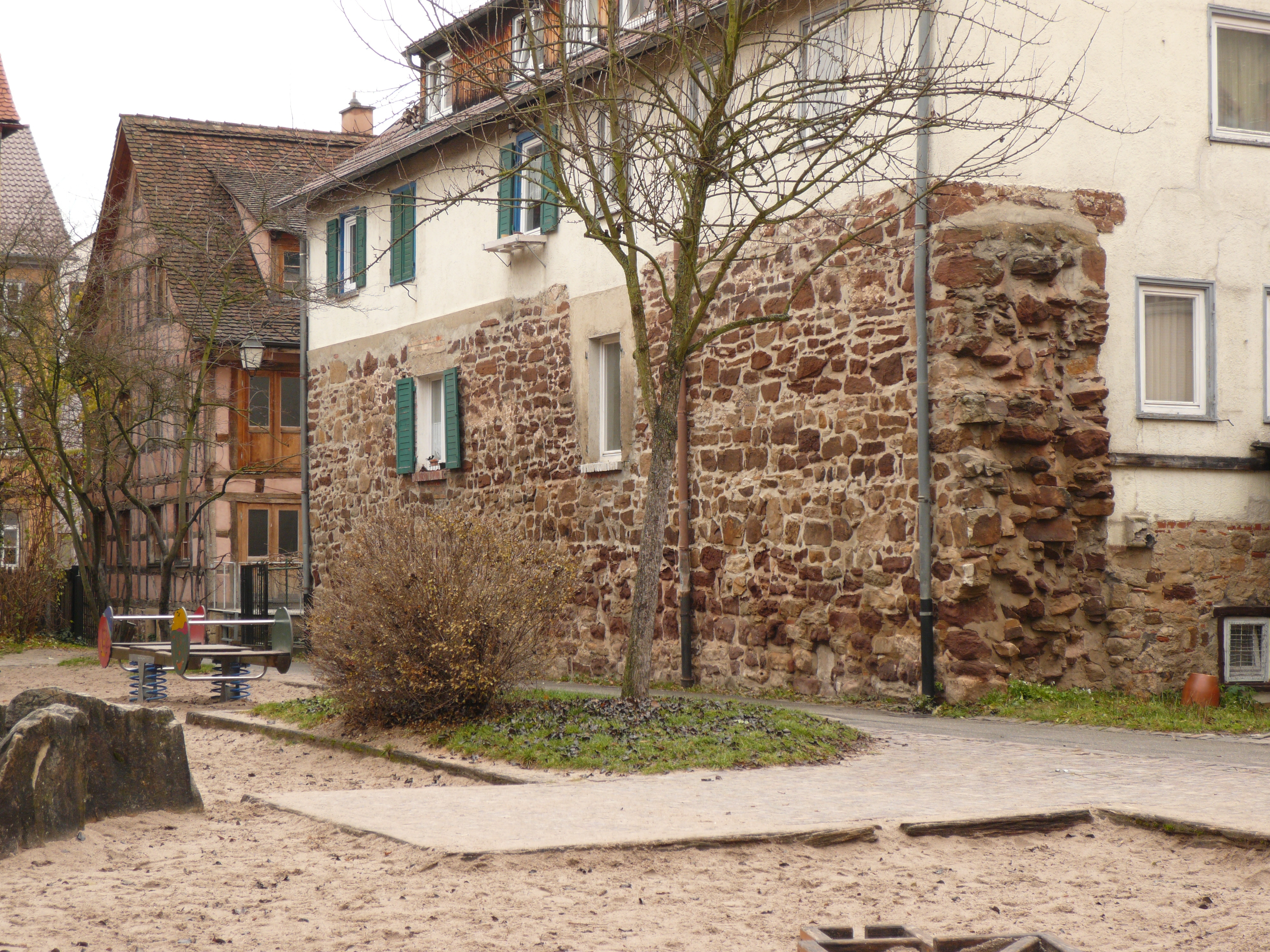 Remains of town wall in Tübingen